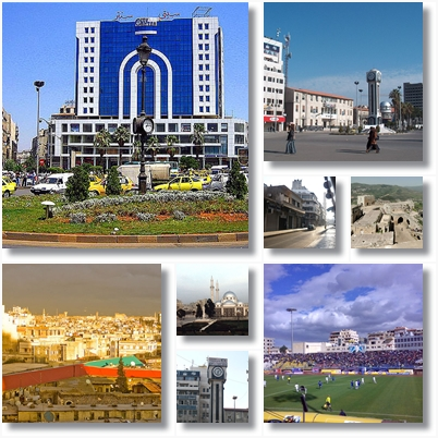 Collage of Homs, Syria Top Left: Al Shuhadaa Square and Old Clock Tower, Ascription: Zozo2kx Source Top Right: The New Clock Square, Ascription: Ss6sam6 Source Mid Left: Al Dablan Street, Ascription: Bo yaser Source Mid Right: Krak des Chevaliers and Homs Landscape, Ascription: Bernard Gagnon Source Bottom Right: Al Karama Stadium, Ascription: Firas 1977 Source Mid Top: Khaled ibn Al Whalid Mosque, Ascription: NouraRaslan Source Mid Bottom: The New Clock Tower, Ascription: Bo yaser Source Bottom Left: General view of city from rooftops, Ascription: Taras Kalapun Source Collection